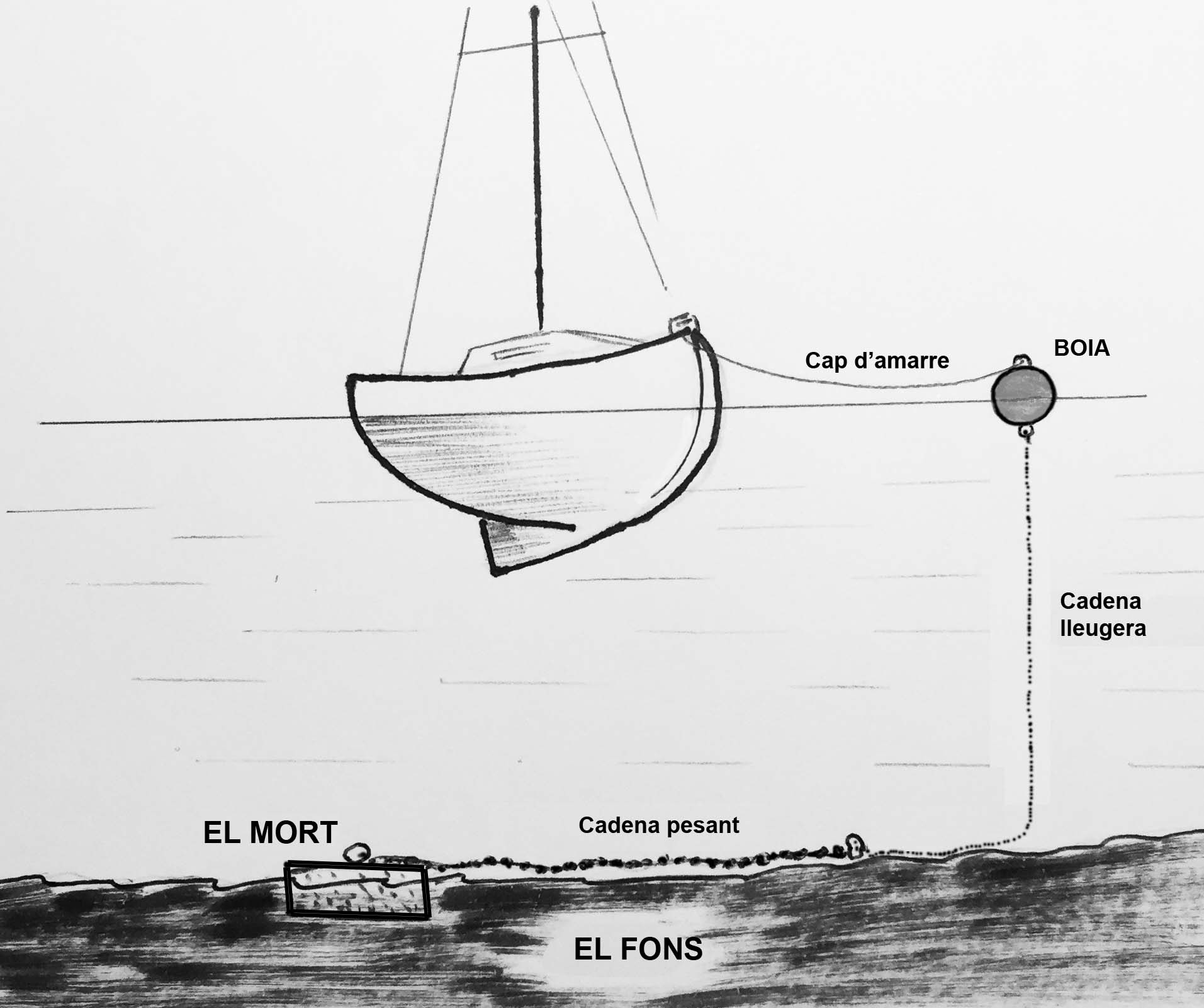 Mooring with buoy